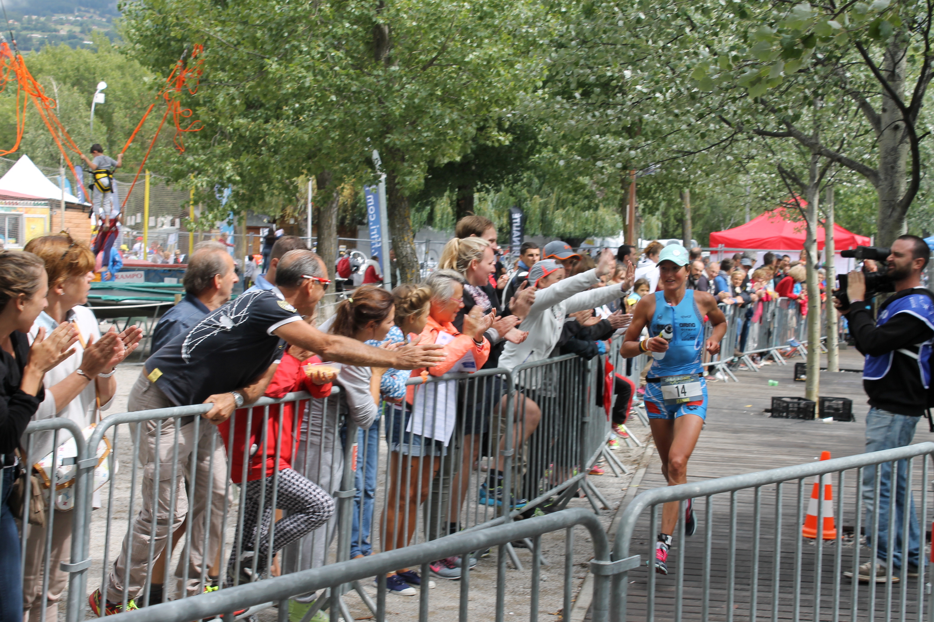 Personality rights warning Although this work is freely licensed or in the public domain, the person(s) shown may have rights that legally restrict certain re-uses unless those depicted consent to such uses. In these cases, a model release or other evidence of consent could protect you from infringement claims.